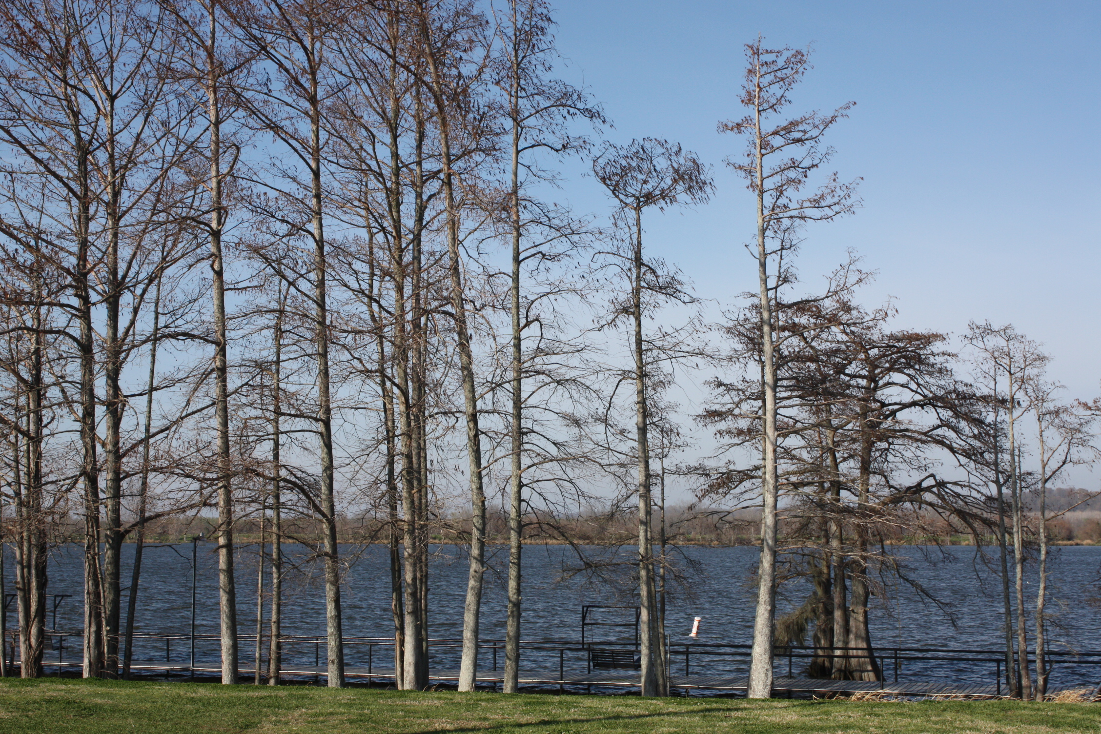 The new fishing pier at Lake Killarney. To the left is a swimming area for residents of B-Line.